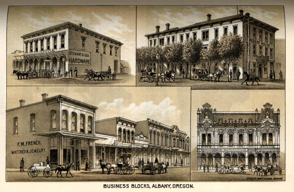 Business blocks in Albany, Oregon; chromolithographic plate published in West Shore magazine in November 1887